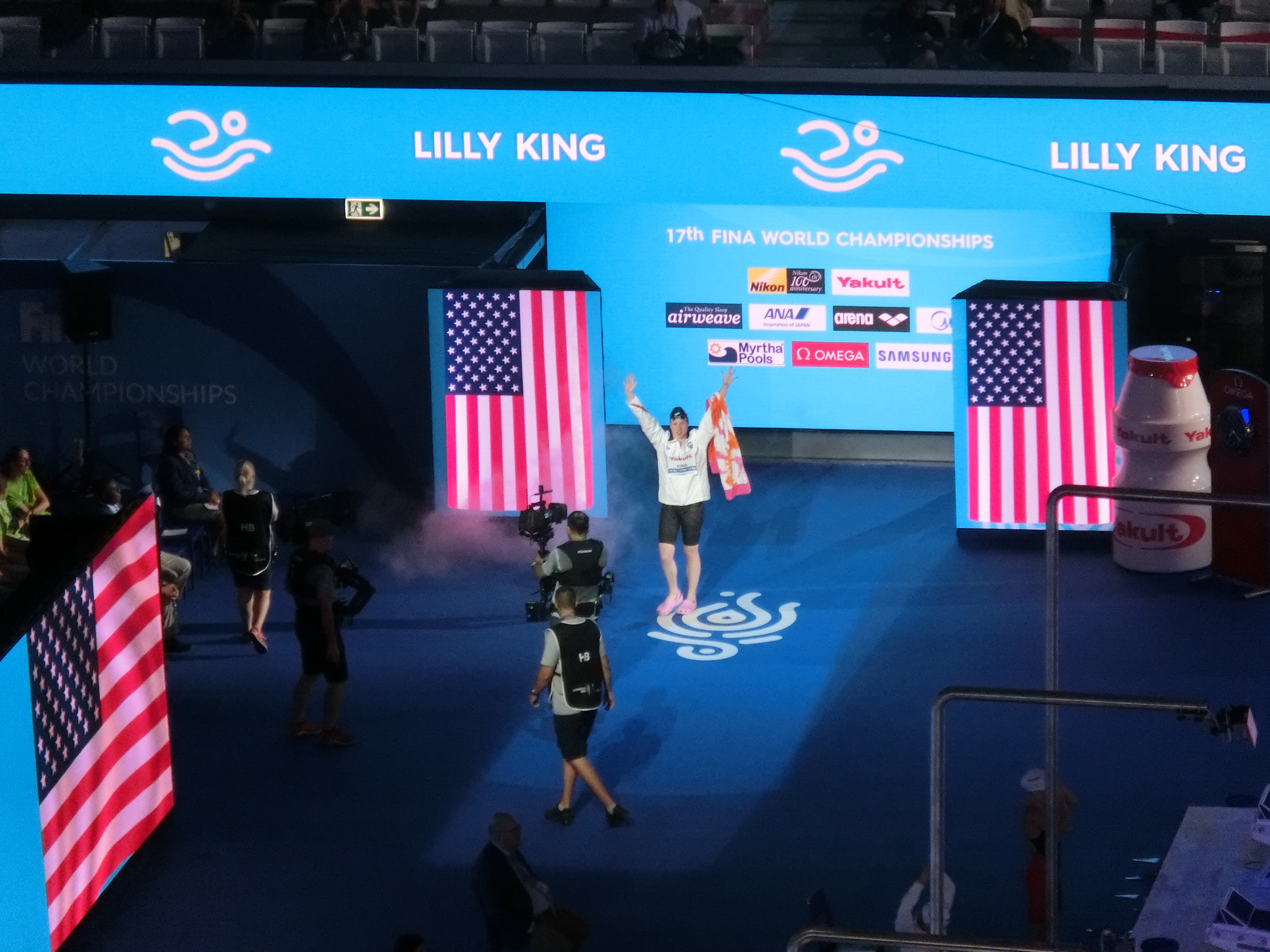 FINA World Championships, Budapest, 2017-07-25, 100m Breaststroke finals, Lilly King (USA)